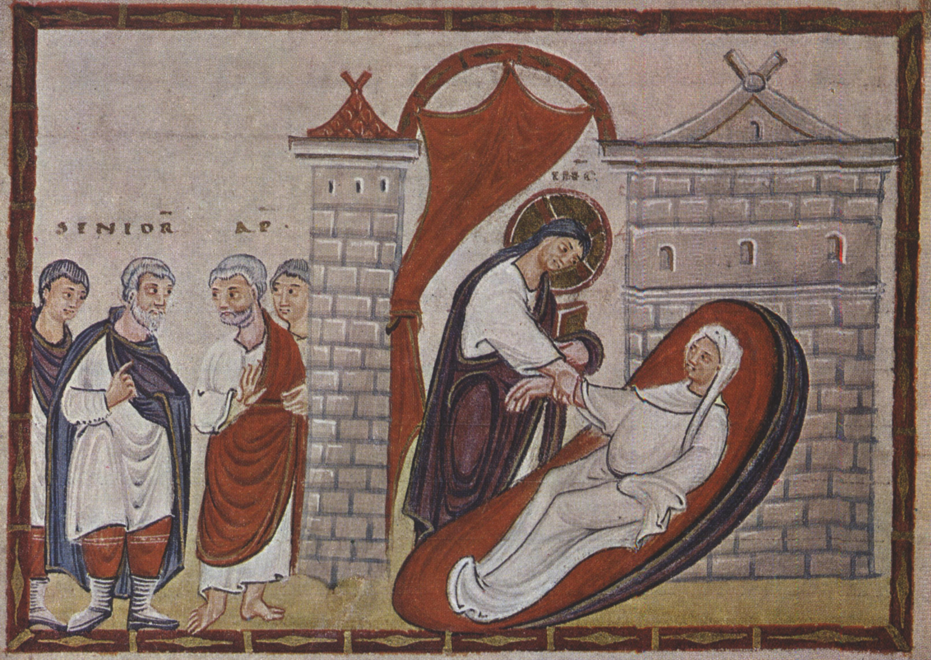 Ressurection of Jairus' daughter